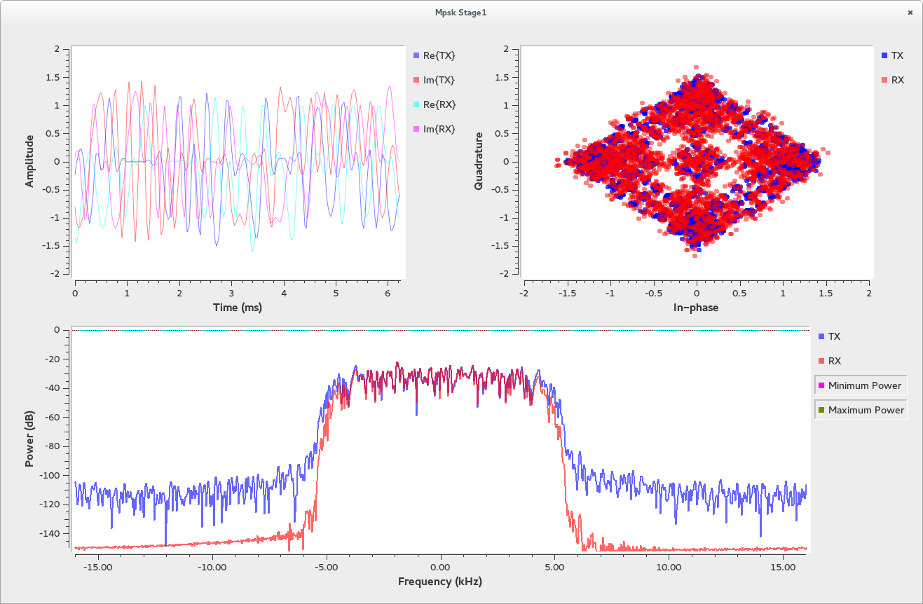 This screenshot shows a running GNU Radio flowgraph, plotting data to a an FFT sink, a constellation sink, and a scope sink.